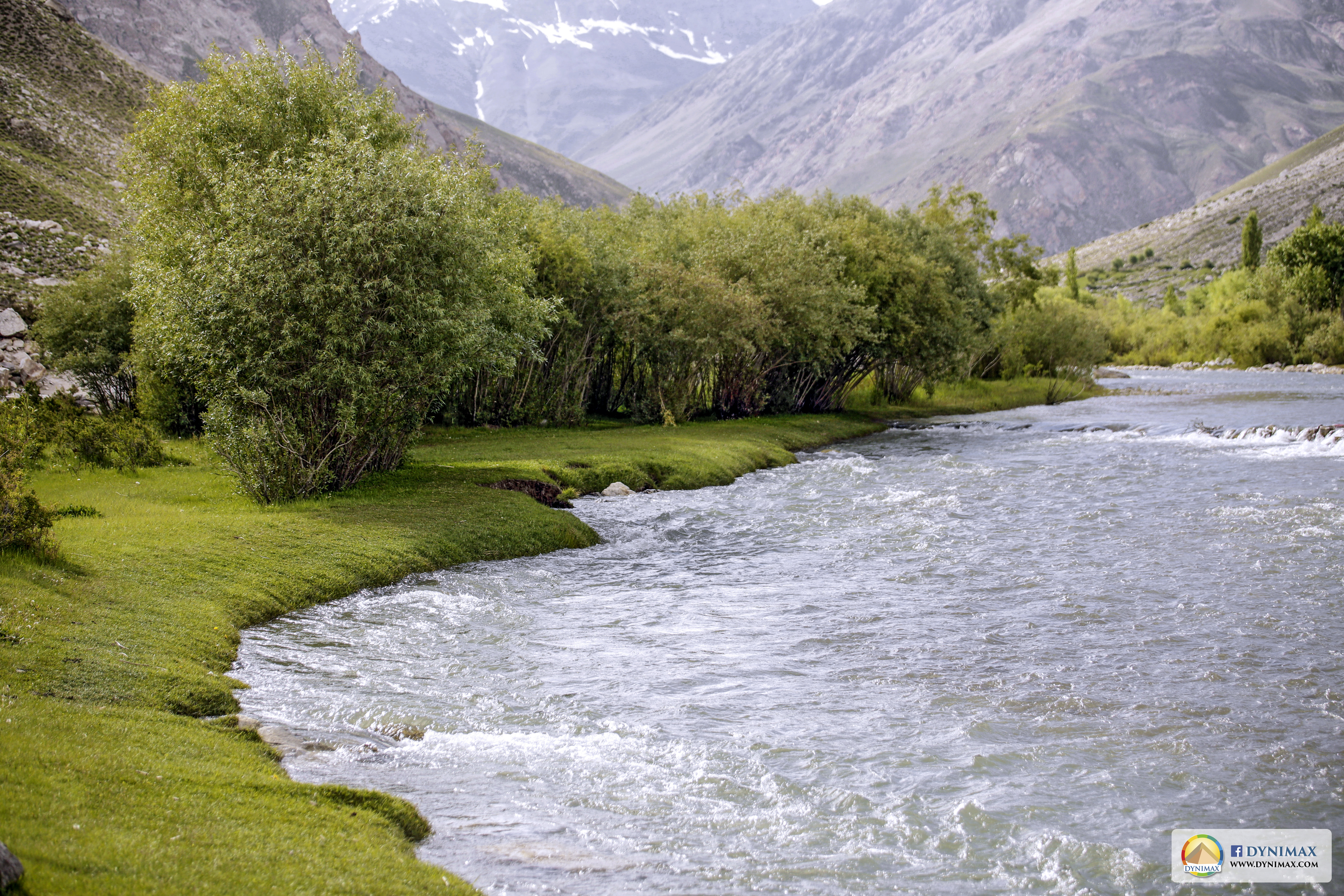 Gabor Valley, Lutkho River, bordering with Afghanistan